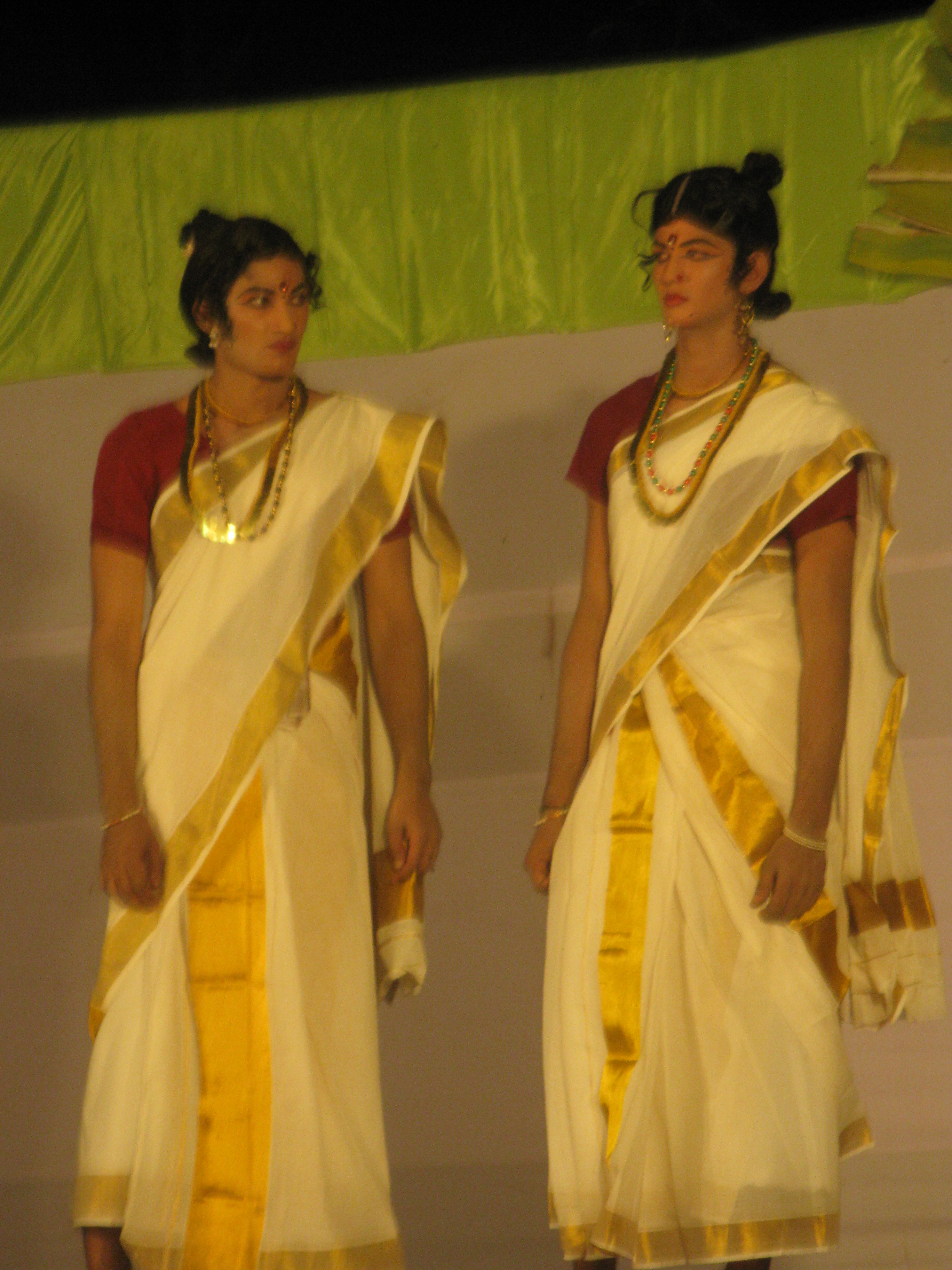 Dancers from an art form Kanyar kali, that is popular in some parts of Palakkad district. Usually men dress up as women in this dance.